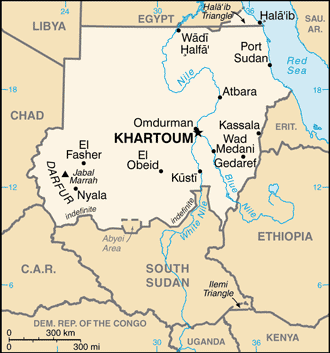 Sudan map from CIA World Factbook, converted from original GIF format (2011 version showing South Sudan)